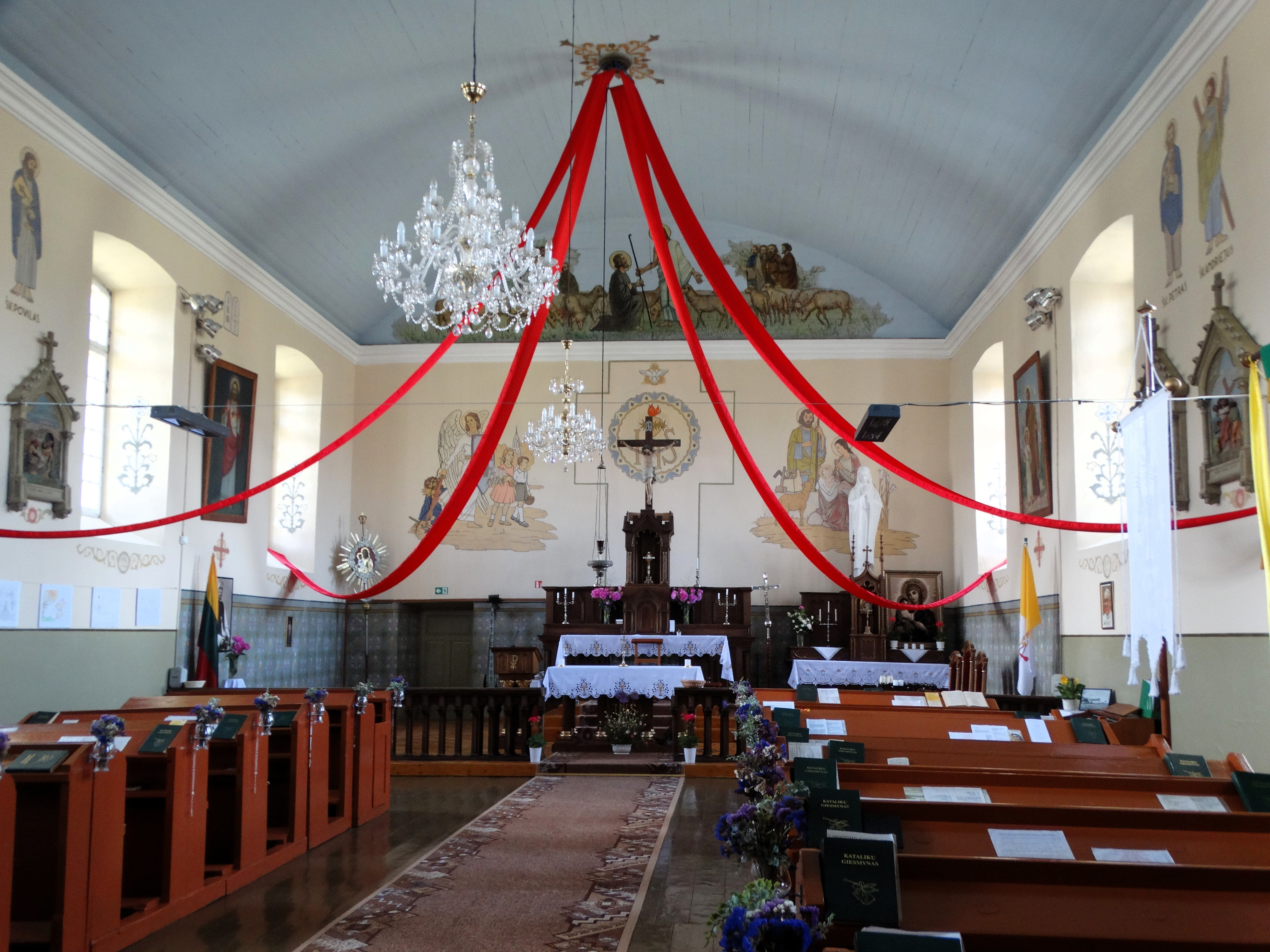 Roman Catholic Church, Bukonys, Jonava district, Lithuania